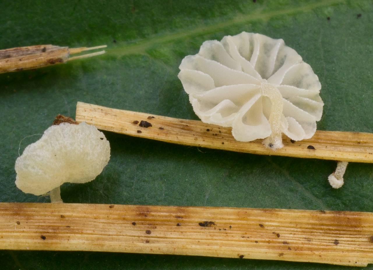 Resinomycena saccharifera on dead stems of rush (Juncus). Caps 4 mm or less. A few measured spores: 8.5-10 × 4. Basidia 4-spored, one measured 25 × 6.